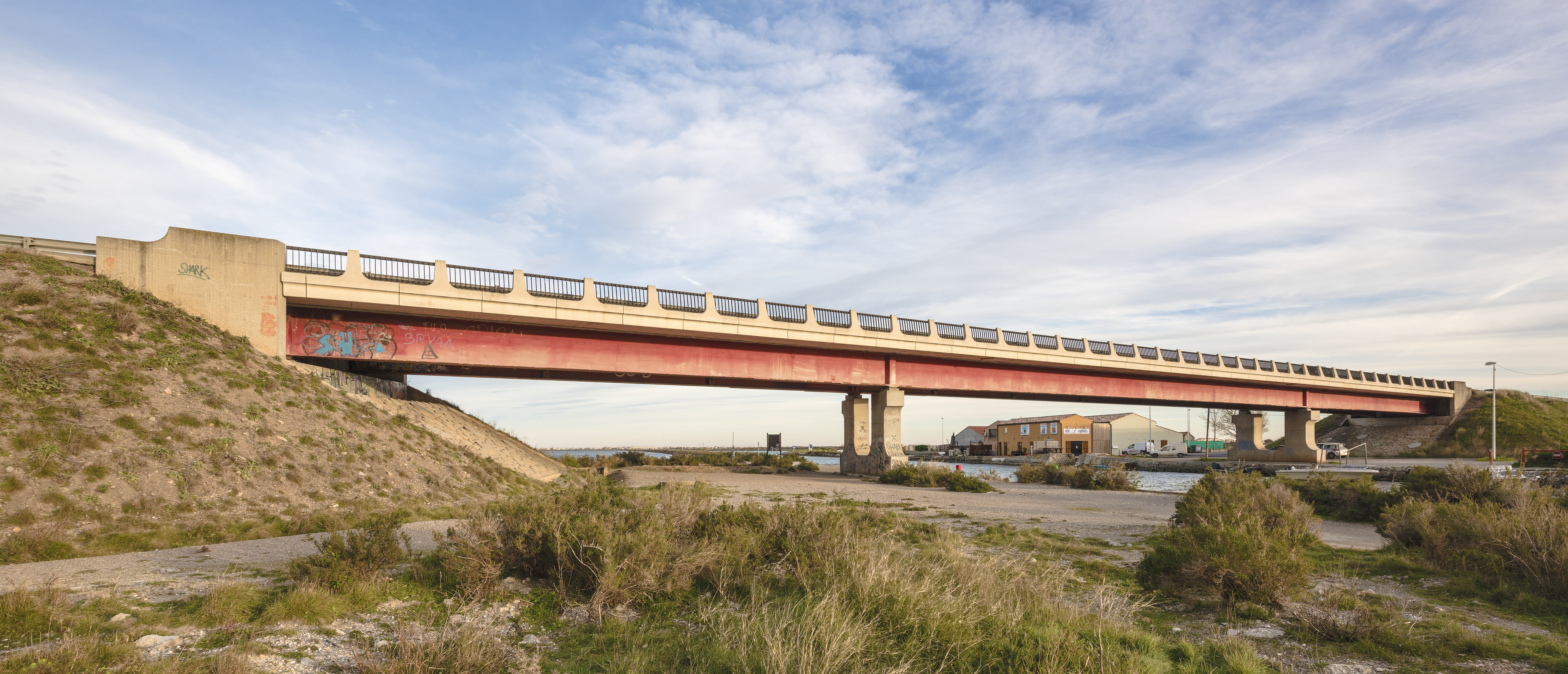 The bridge the D612 (Departmental Road) over the Canal du Rhône à Sète. Frontignan, Hérault, France.